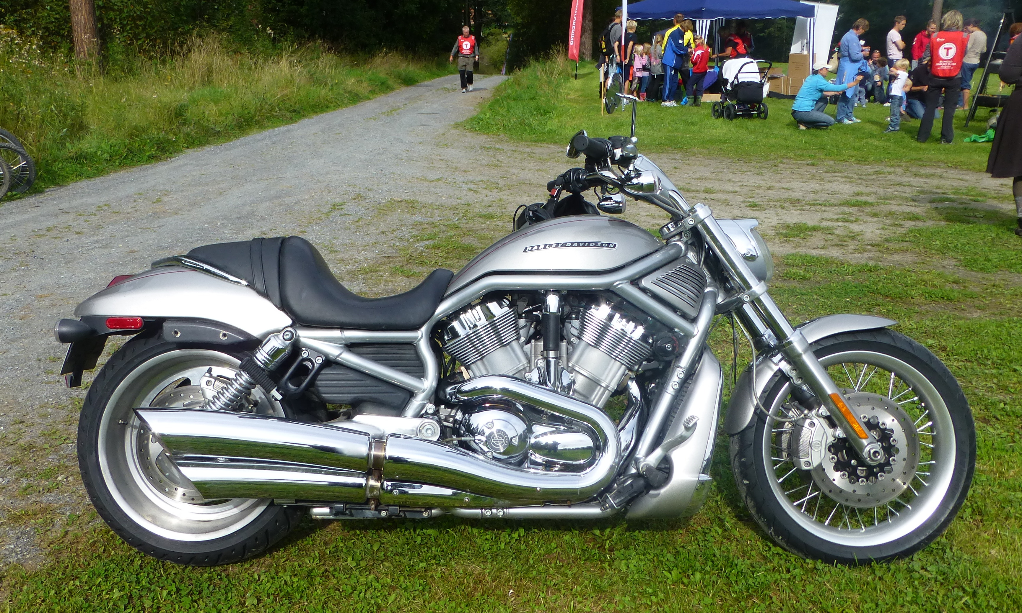 Probably a Harley-Davidson VRSCA V Rod, model year unknown.